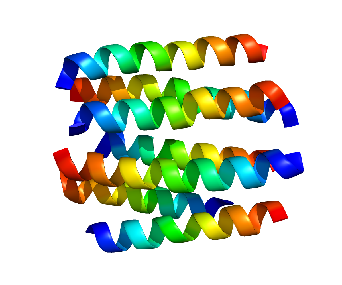 Structure of protein DRD2.Based on PyMOL rendering of PDB 1I15.